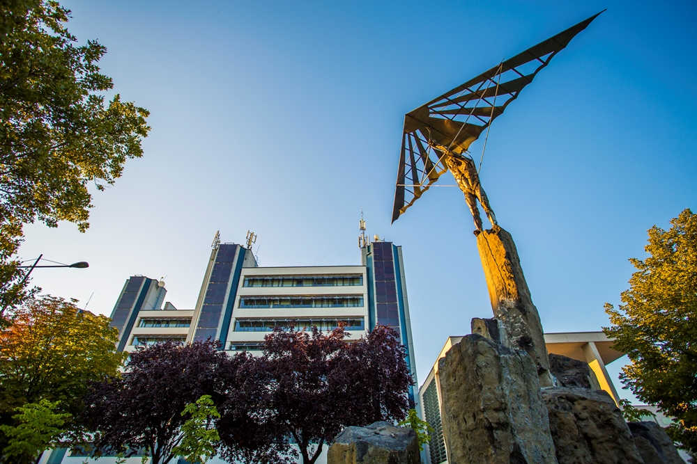 SZe statue university